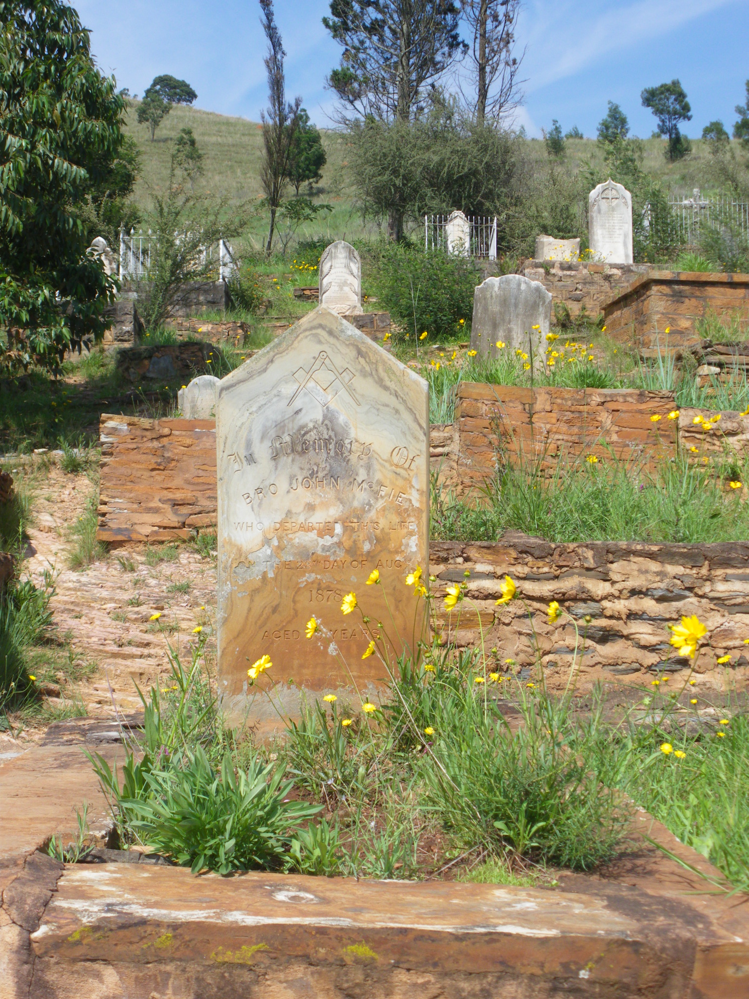 A Masonic Grave at Pilgrims Rest's Old cemetery at Pilgrim's Rest, Mpumalanga, South Africa Text on the tombstone : "In Memory of Bro John Mc Fie, who departed this life on the 28th day aug 1878, aged 38 years"